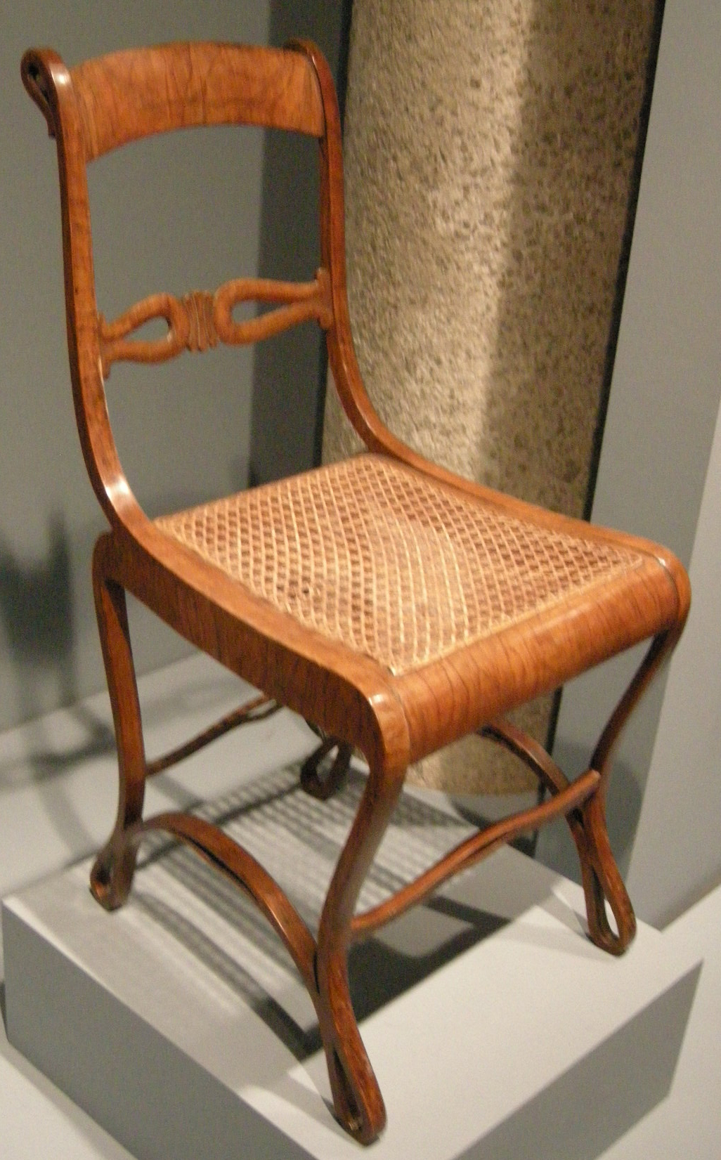 Michael thonet, sedia, 1836-40